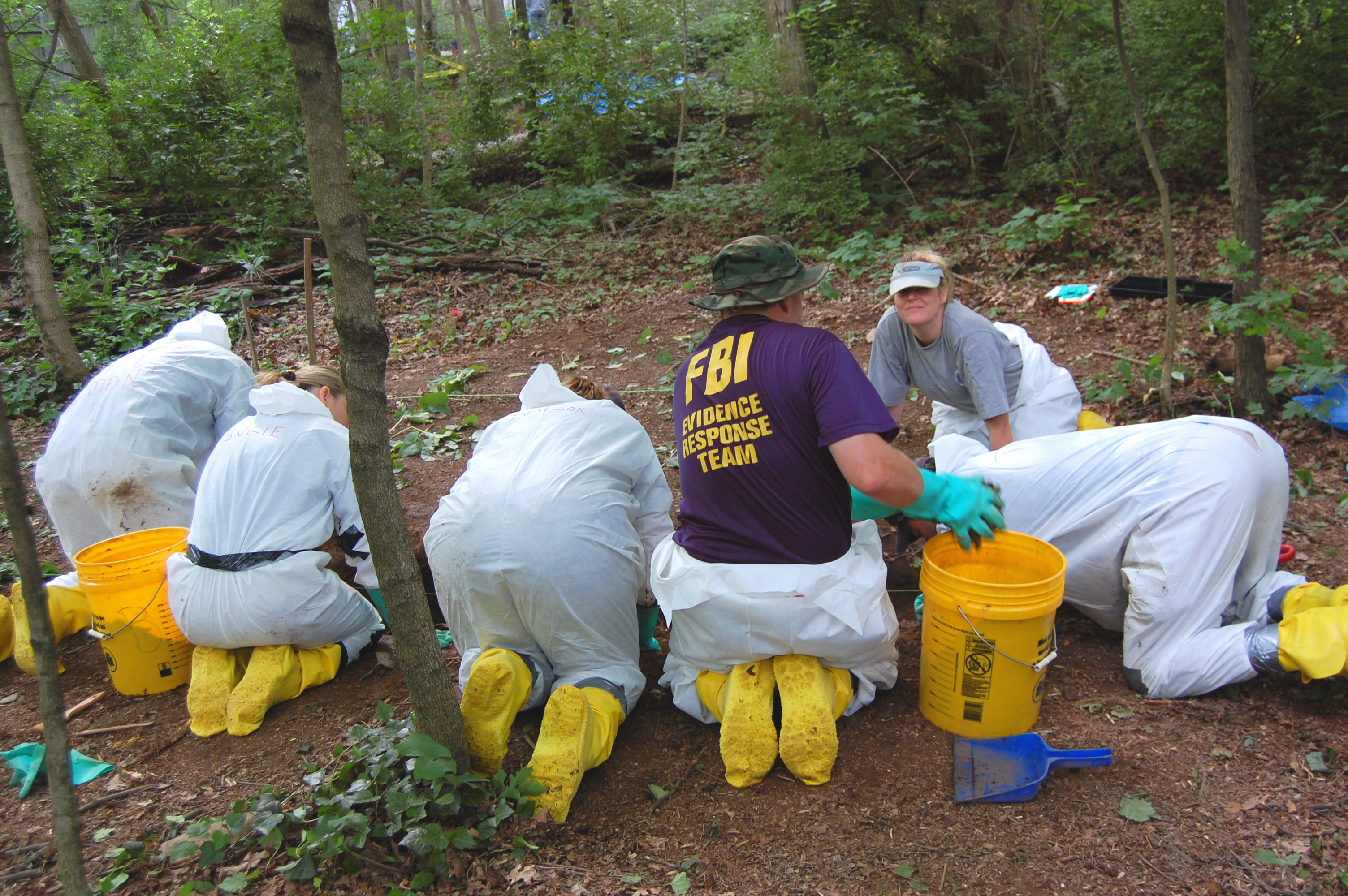 FBI Evidence Response Team